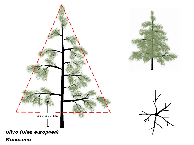 Olive-tree growing systems: monocone form